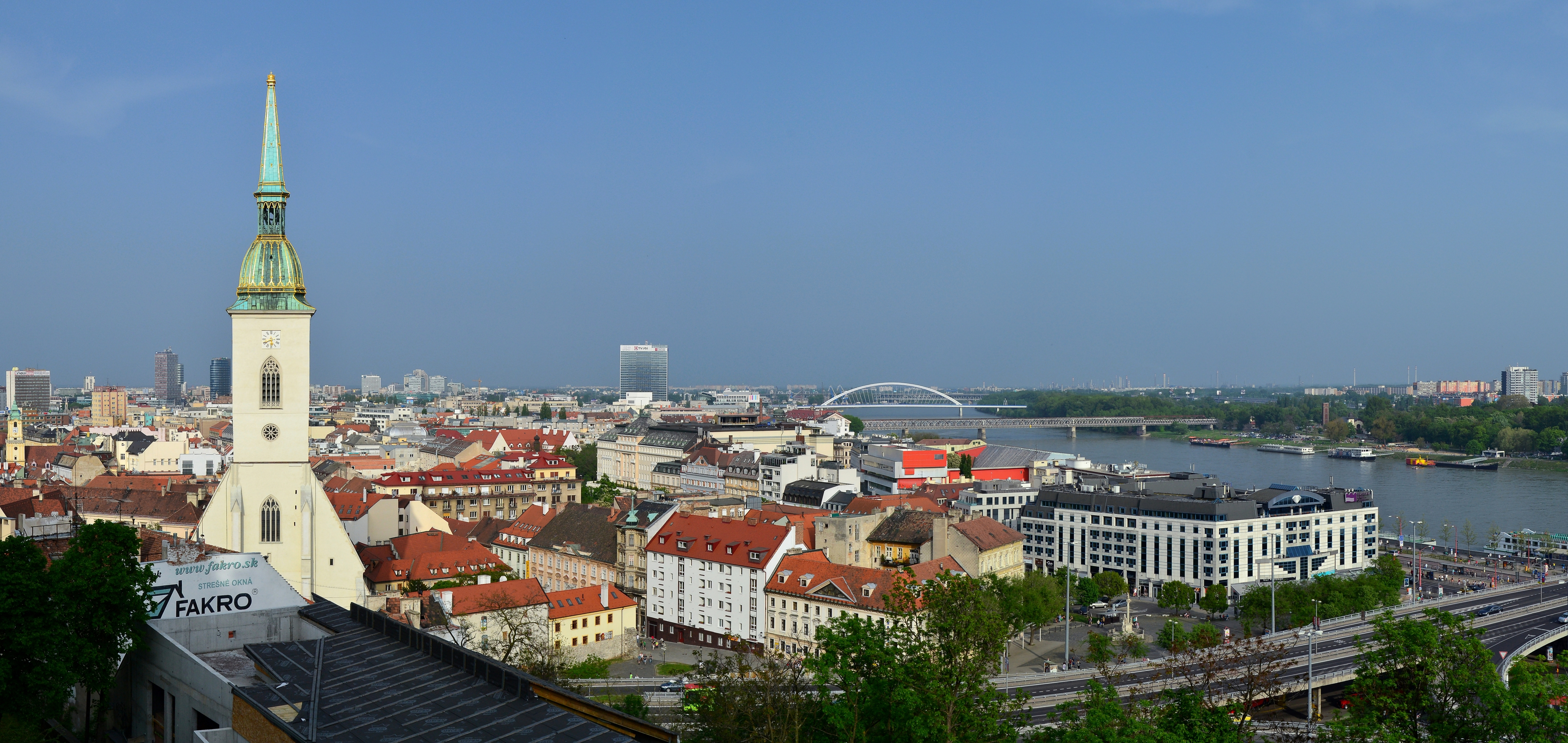 Panorama of Bratislava (Pressburg, Pozsony), Slovakia